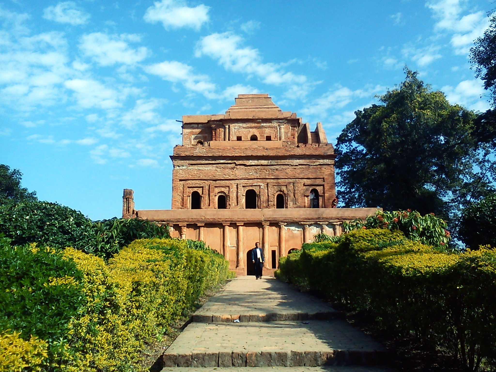 Karengghar of the Ahom Kings, Joysagar